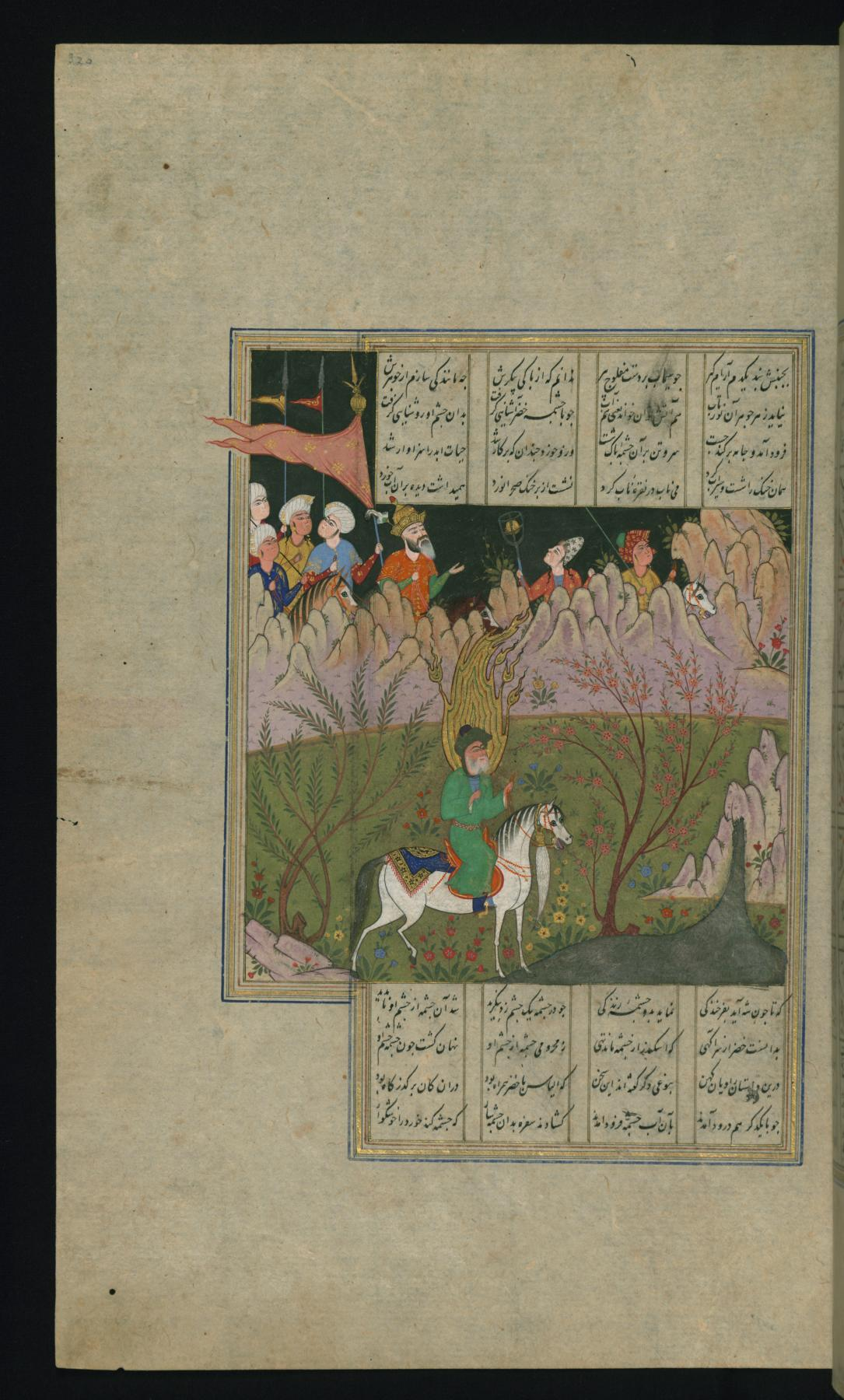 This folio from Walters manuscript W.610 depicts Alexander the Great and the prophet Khidr (Khizr) in front of the Fountain of Life.